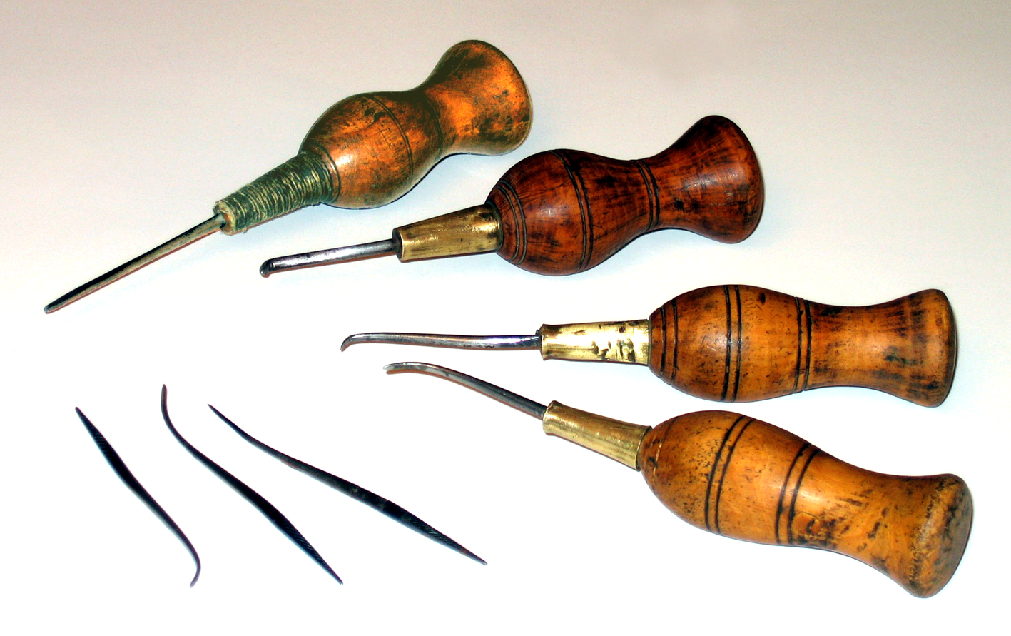 Shoemaking awls source familiale / photo Dominique grassigli